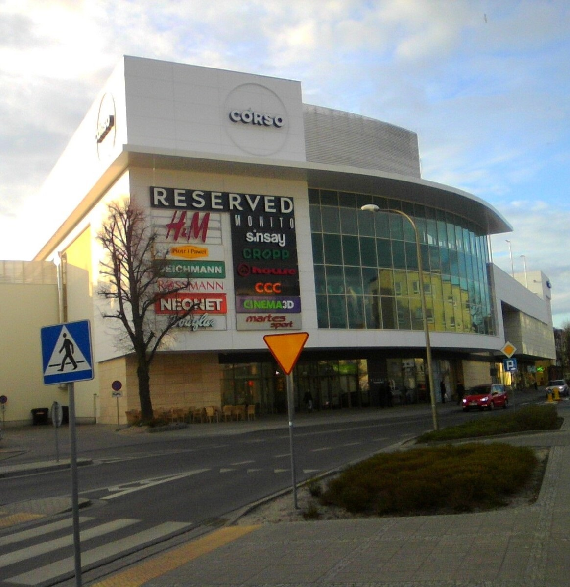 CORSO Shopping Center in Świnoujście